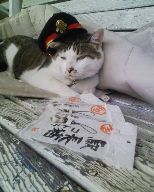 StationMaster-Cat, Working with StationMaster Cap